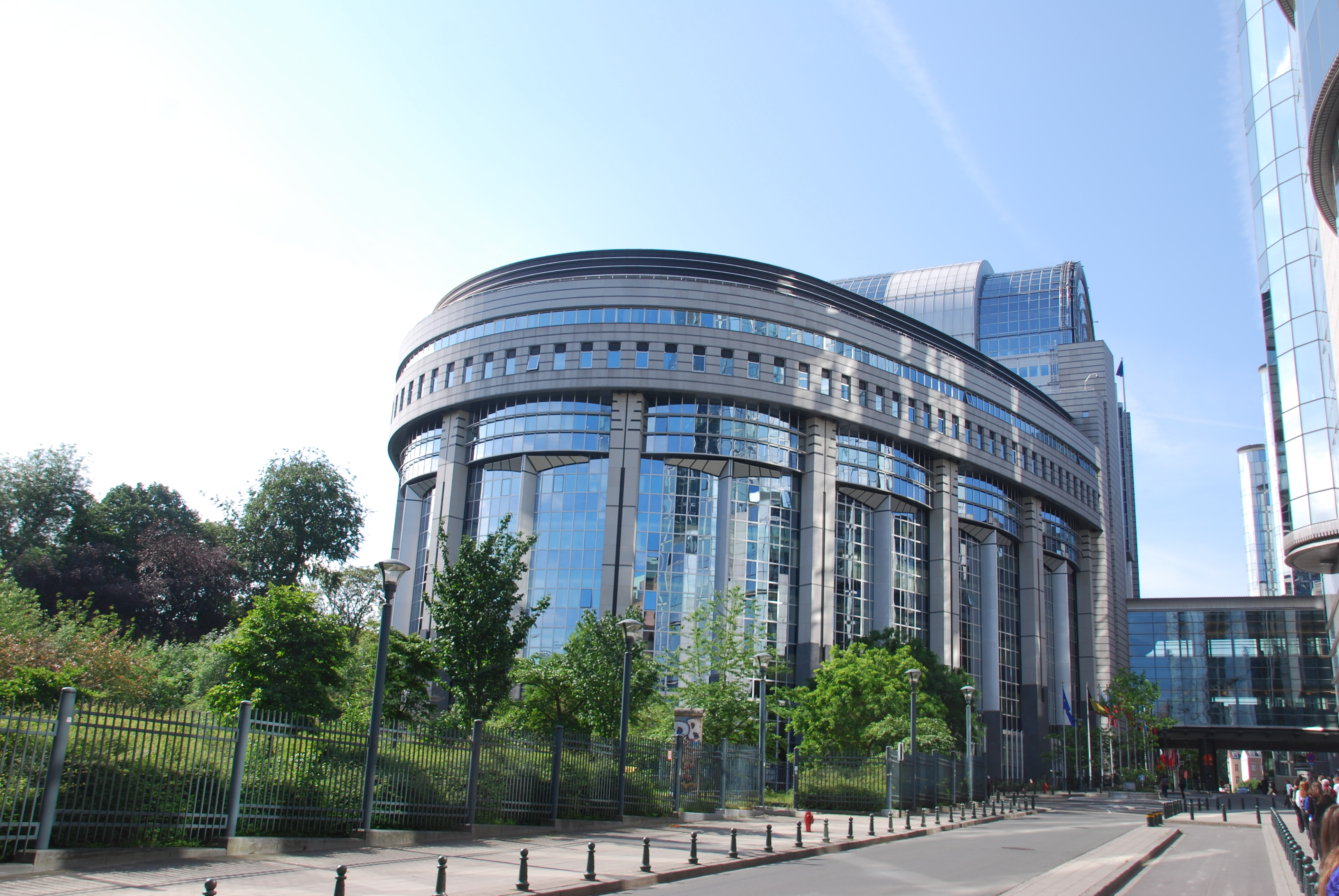 European Parliament, Brussels